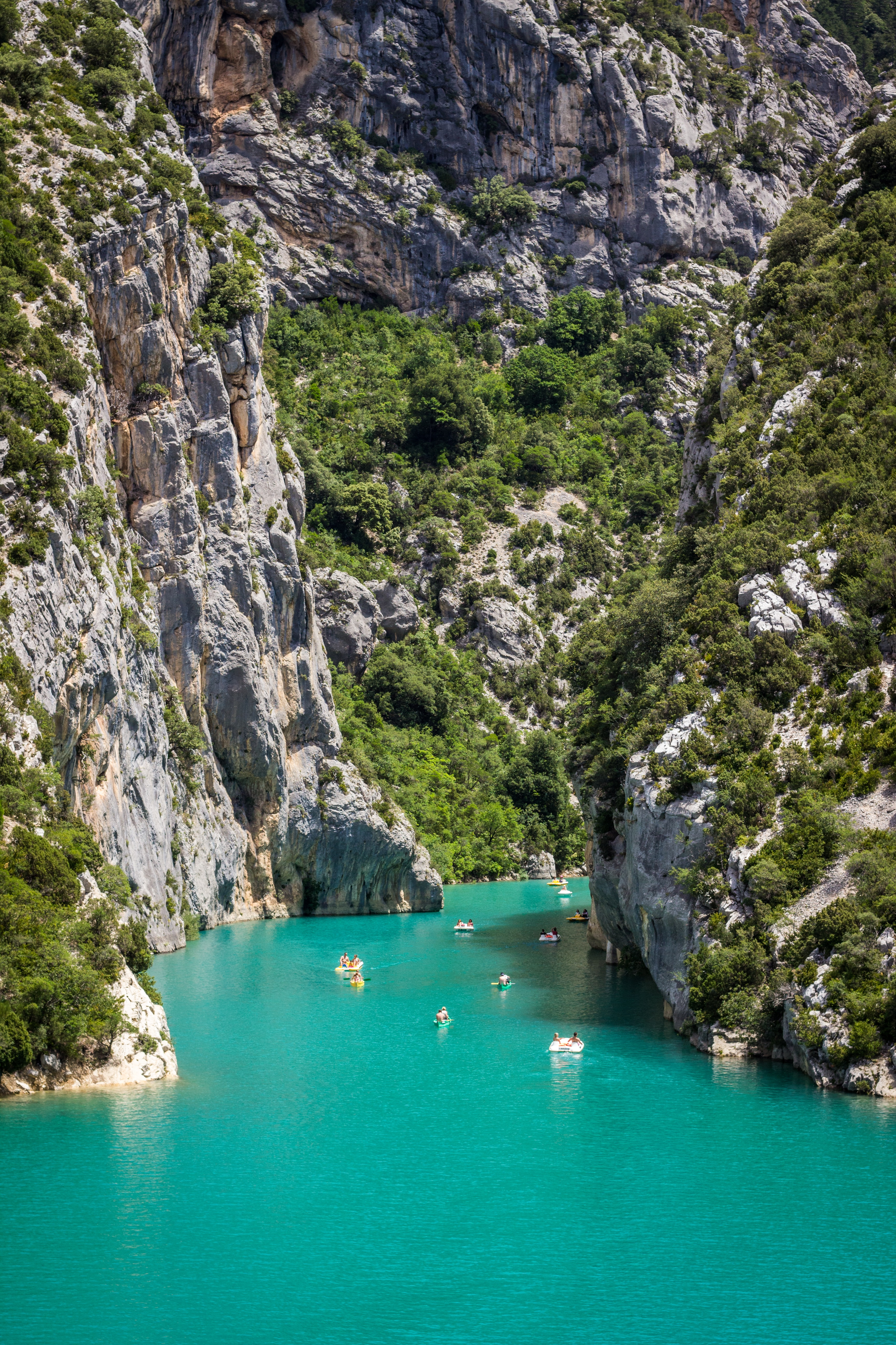 Body of water in the between mountain in Verdon Gorge, Castellane, France.